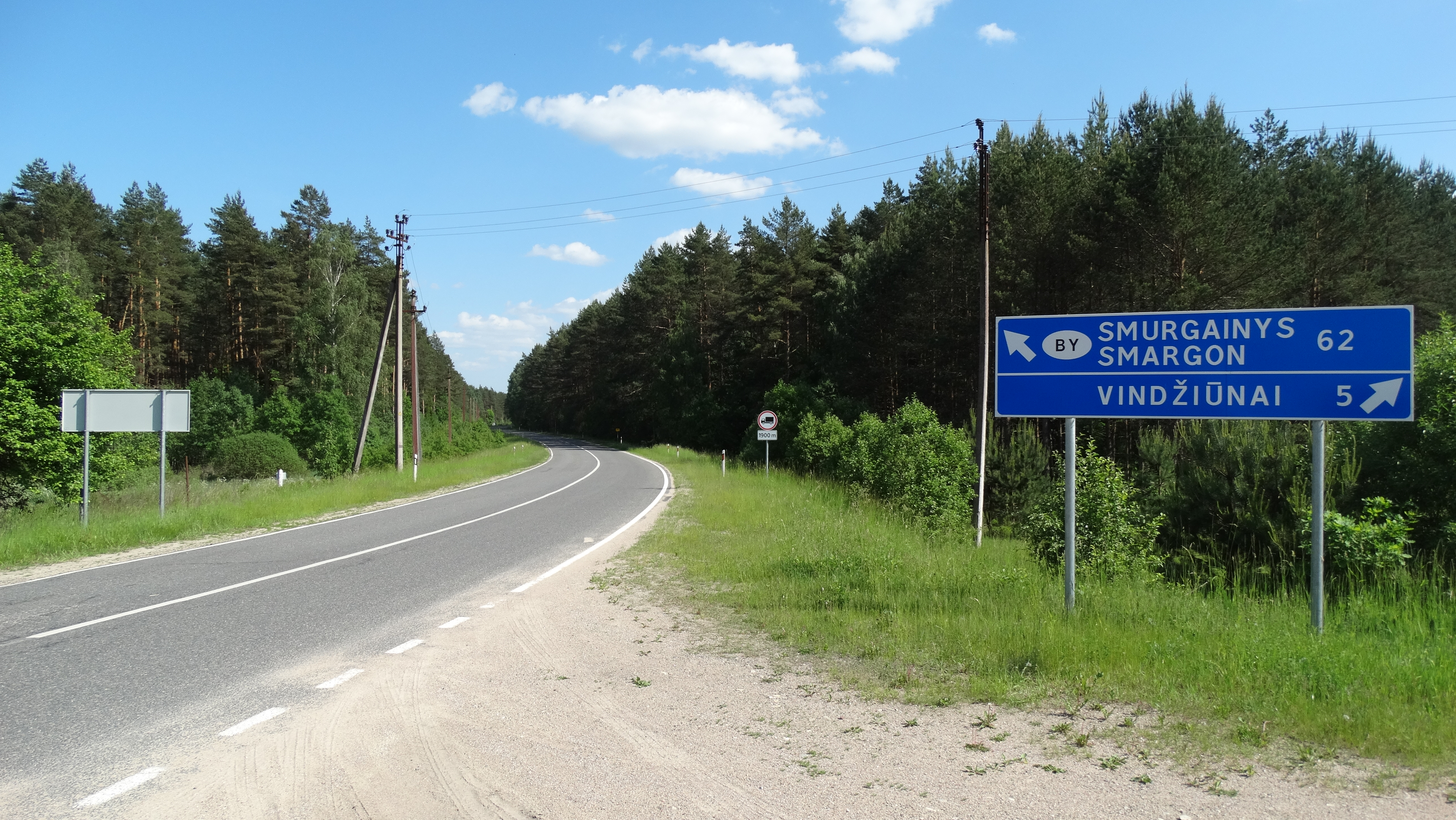 Road 101, Vilnius District, Lithuania